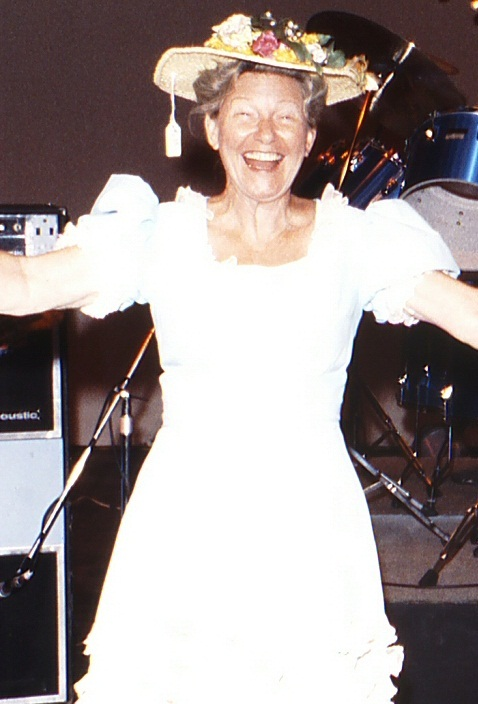 Minnie Pearl performs at Knott's Berry Farm